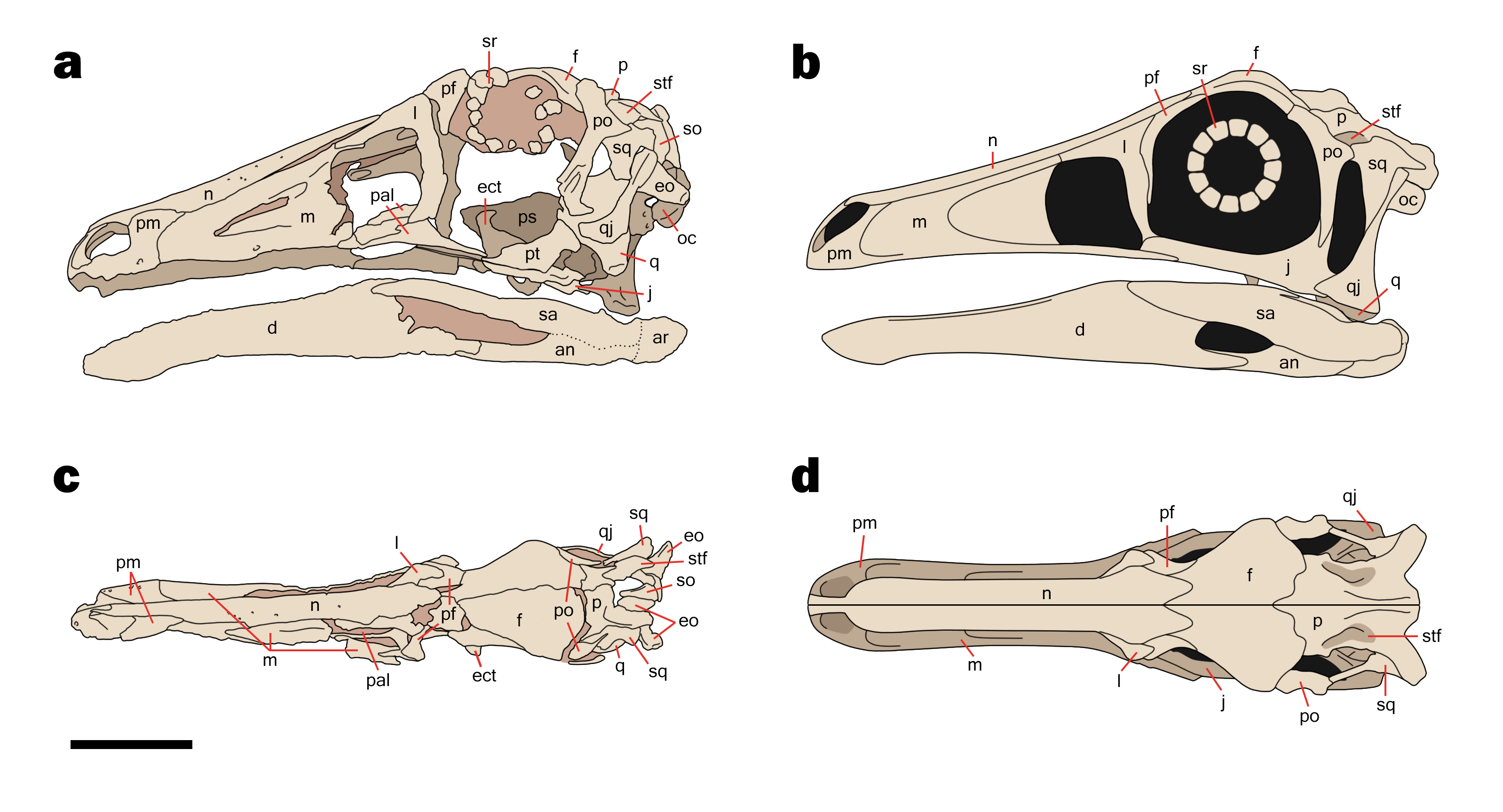 Skull of Garudimimus brevipes (MPC-D 100/13). a, Left lateral view. c, Dorsal view. b, Reconstruction in composite lateral view. d, Reconstruction in dorsal view. Scale bar = 5 cm. Abbreviations: an, angular; ar, articular; d, dentary; ect, ectopterygoid; eo, exoccipital; f, frontal; j, jugal; l, lacrimal; m, maxilla; n, nasal; oc, occipital condyle; p, parietal; pal, palatine; pf, prefrontal; pm, premaxilla; po, postorbital; ps, parasphenoid; pt, pterygoid; q, quadrate; qj, quadratojugal; sa, surangular; sr, sclerotic ring; so, supraoccipital; sq, squamosal; stf, supratemporal fenestra. Based on Kobayashi & Barsbold 2005[1] and Cuff & Rayfield 2015.[2] References ↑ (2005). "Reexamination of a primitive ornithomimosaur, Garudimimus brevipes Barsbold, 1981 (Dinosauria: Theropoda), from the Late Cretaceous of Mongolia". Canadian Journal of Earth Sciences 42 (9): 1501−1521. ↑ (2015). "Retrodeformation and muscular reconstruction of ornithomimosaurian dinosaur crania". PeerJ 3: e1093. PMID 26213655. PMC: 4512775.